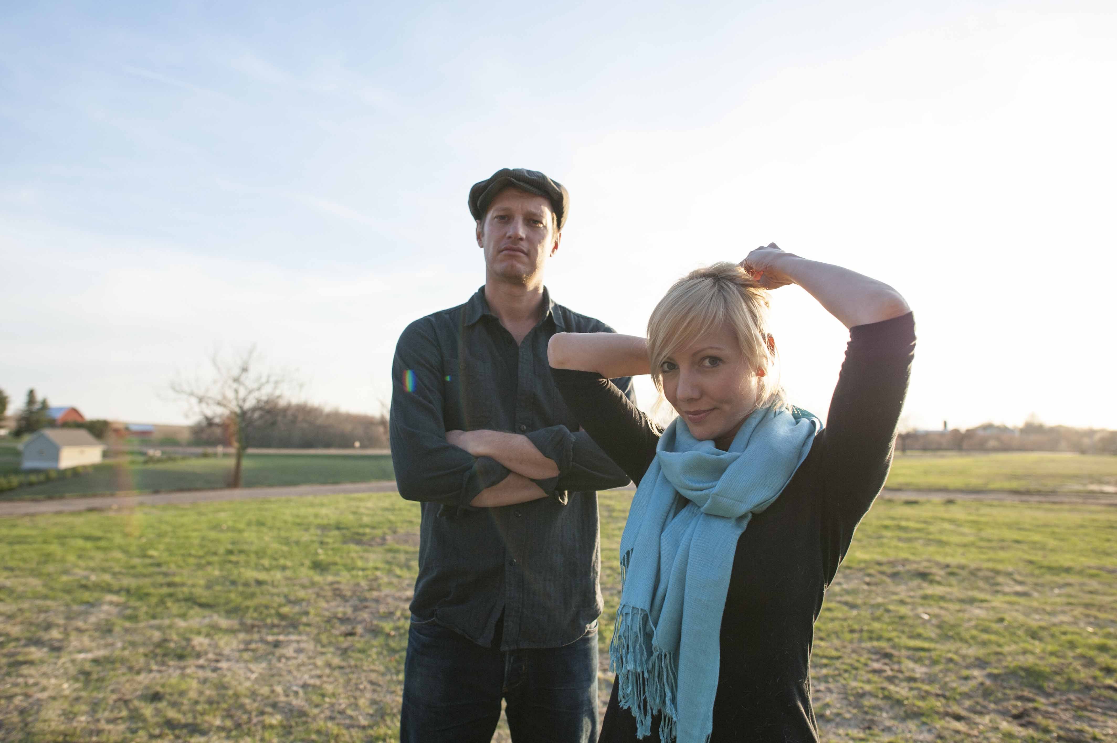 The Rosebuds Press Photo 2014